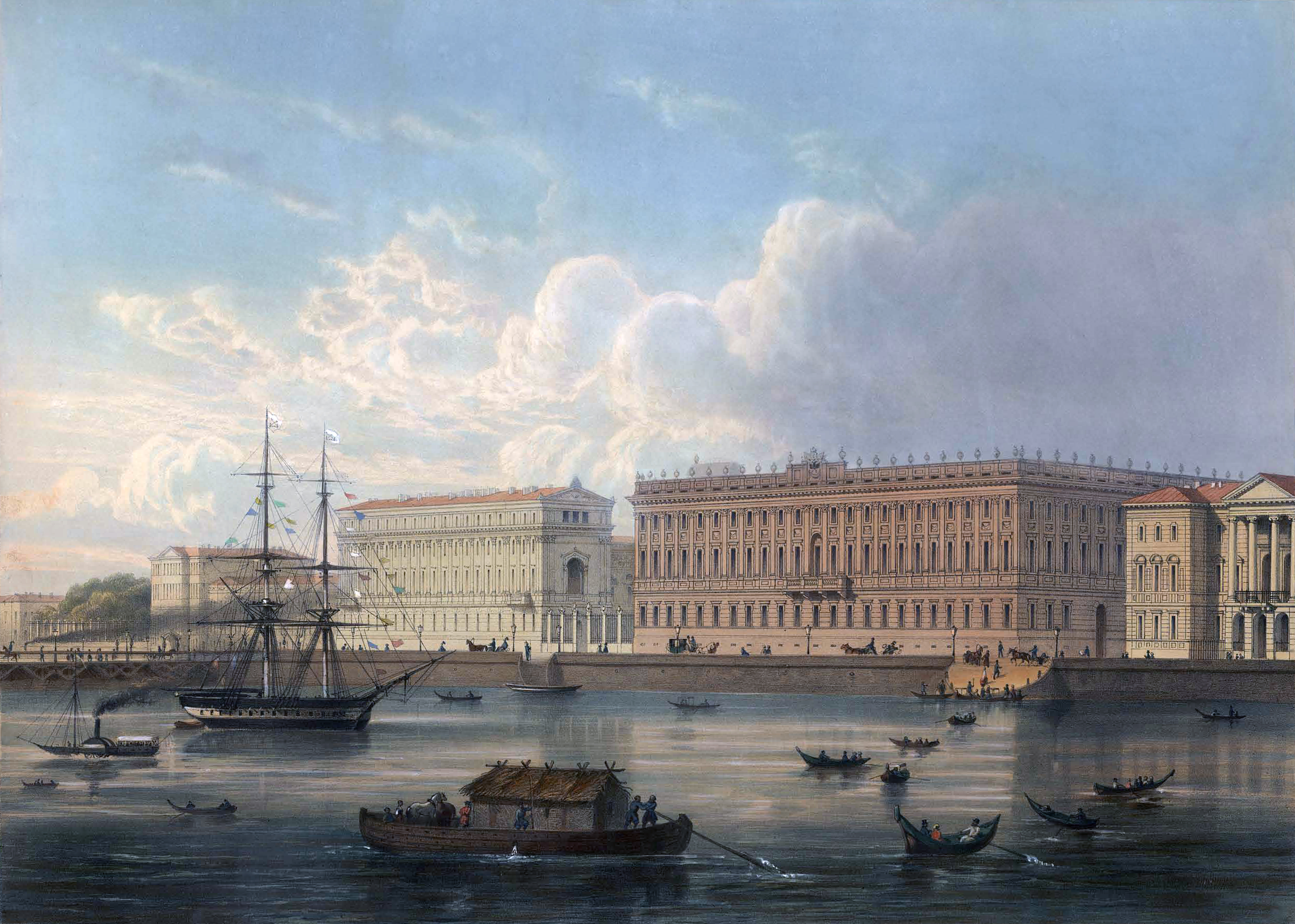 Marble Palace in Saint Petersburg.